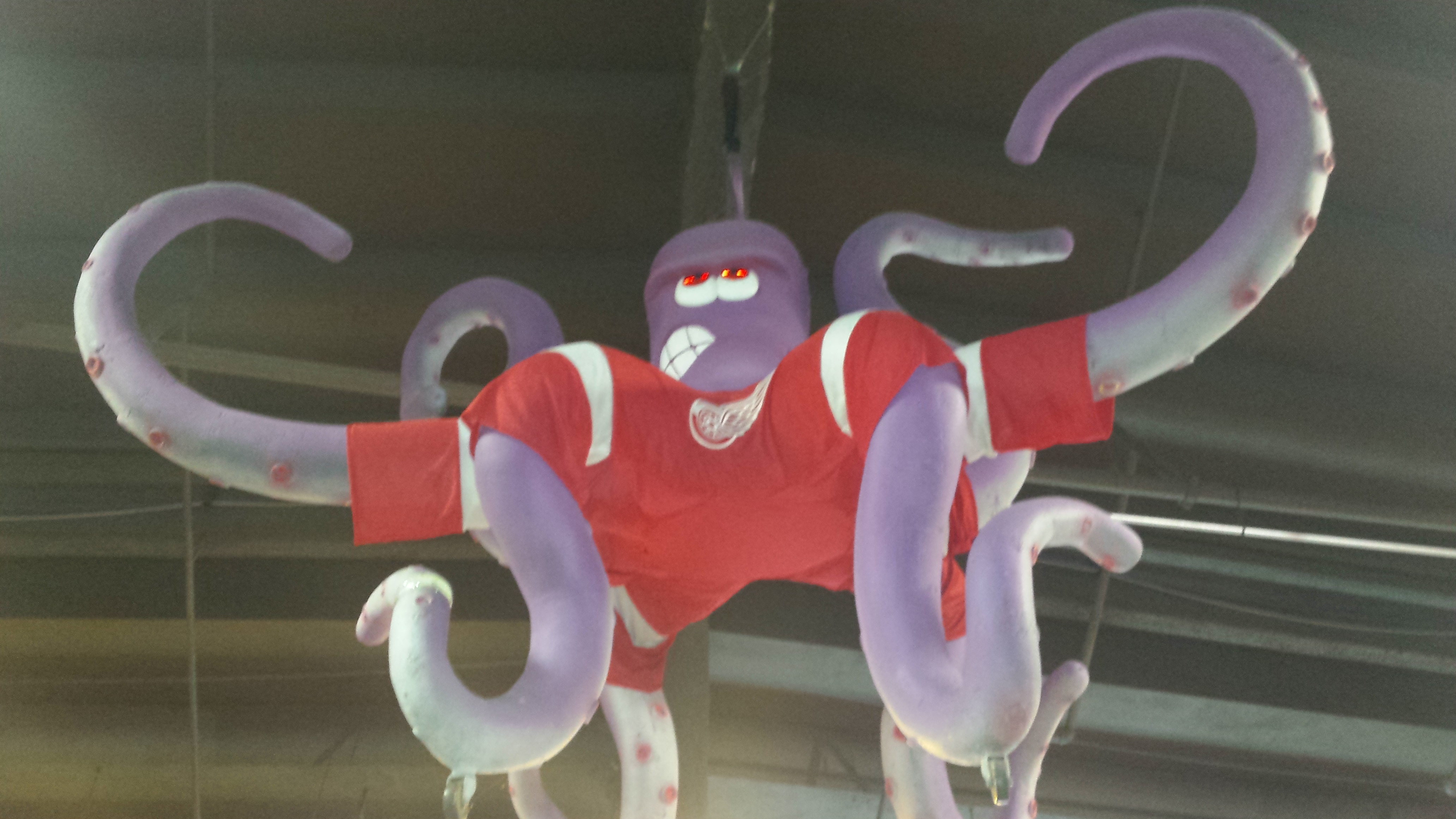 Detroit Red Wings vs. Vancouver Canucks - November 10, 2016